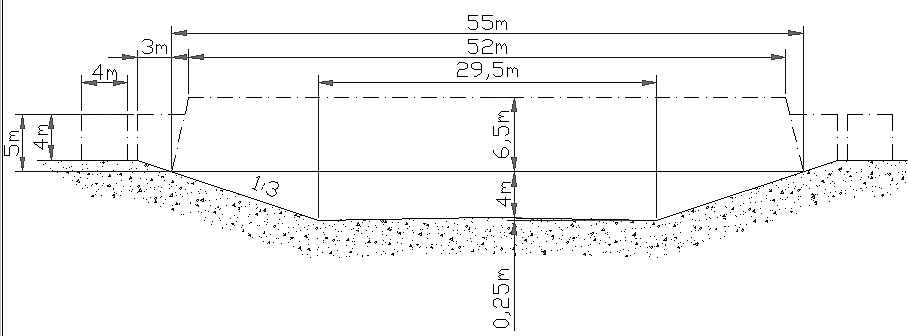 Clearance of the Main-Danube Canal